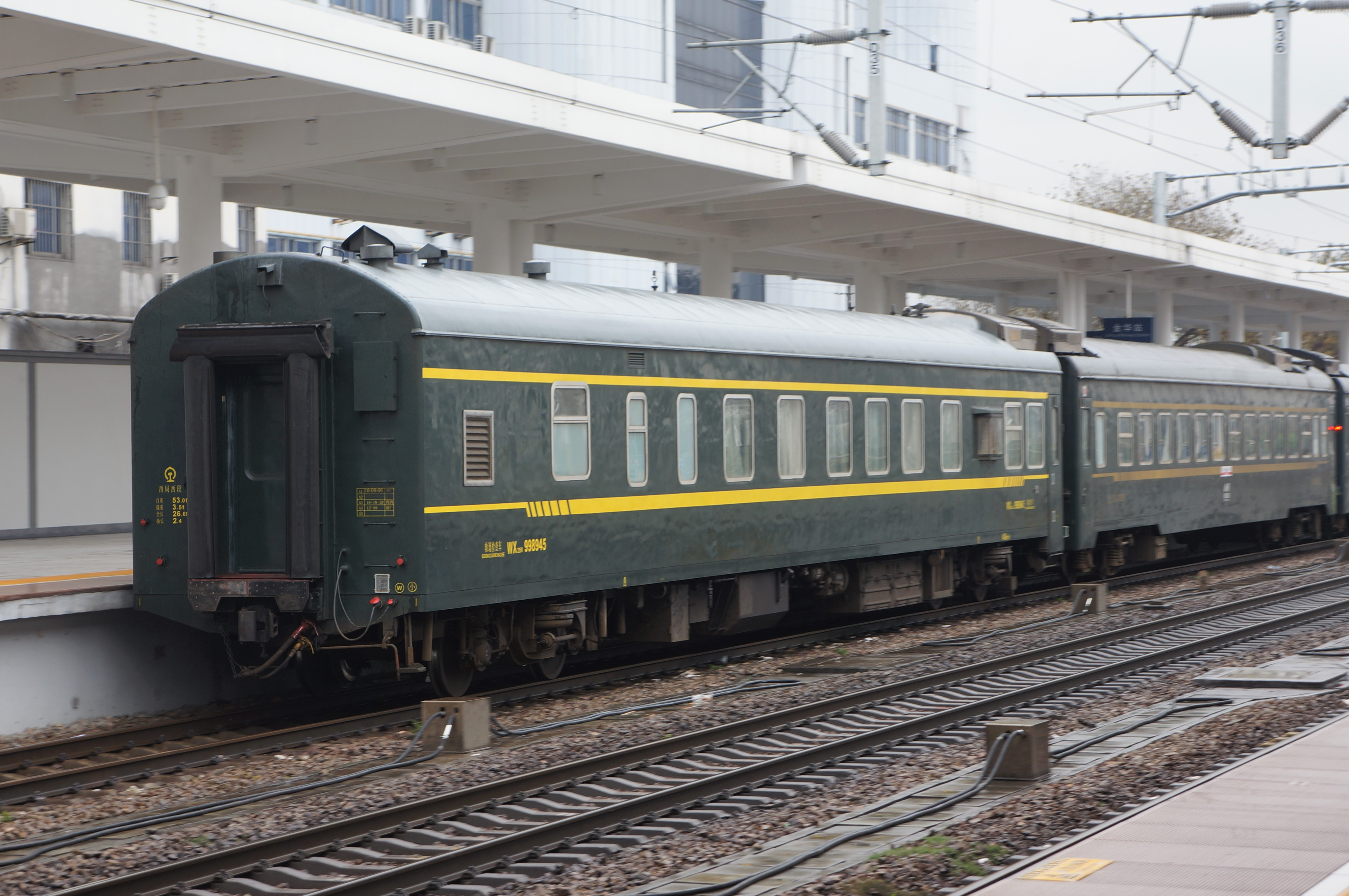 A bonus surprise...